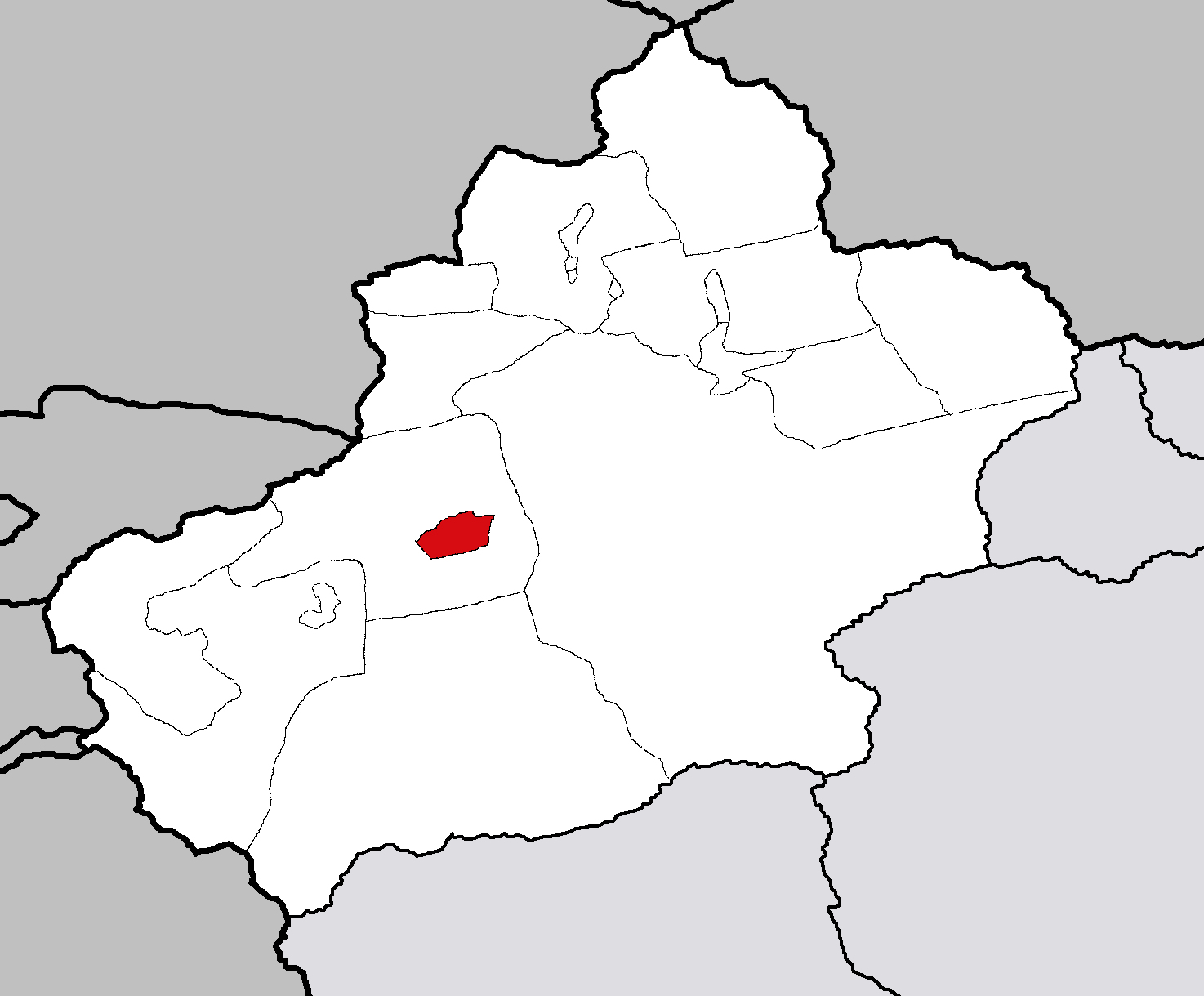 Aral sub-prefecture in Xinjiang autonomous region (China) Taken from Image:Alar.png